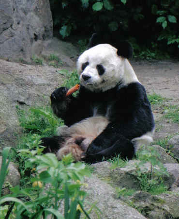 Bao Bao (* 1978) is a male Giant Panda (Ailuropoda melanoleuca), who lives in the Berlin Zoo. He is the eldest known Giant Panda in a zoo.